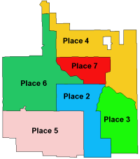 DeSoto, Texas City Council District Map. Made by User:Acntx